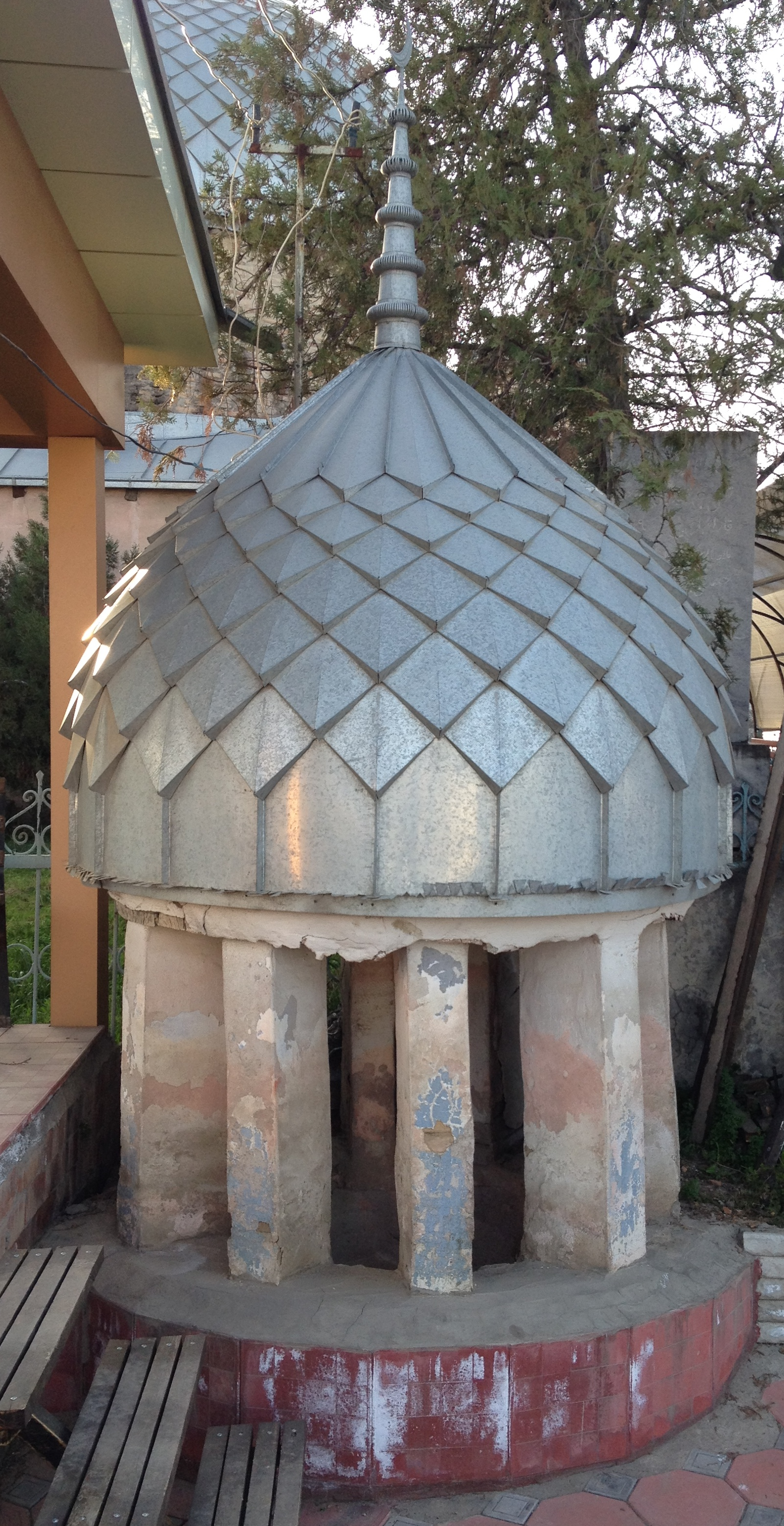 Skylight of chillakhona near Khoja Alambardor mausoleum